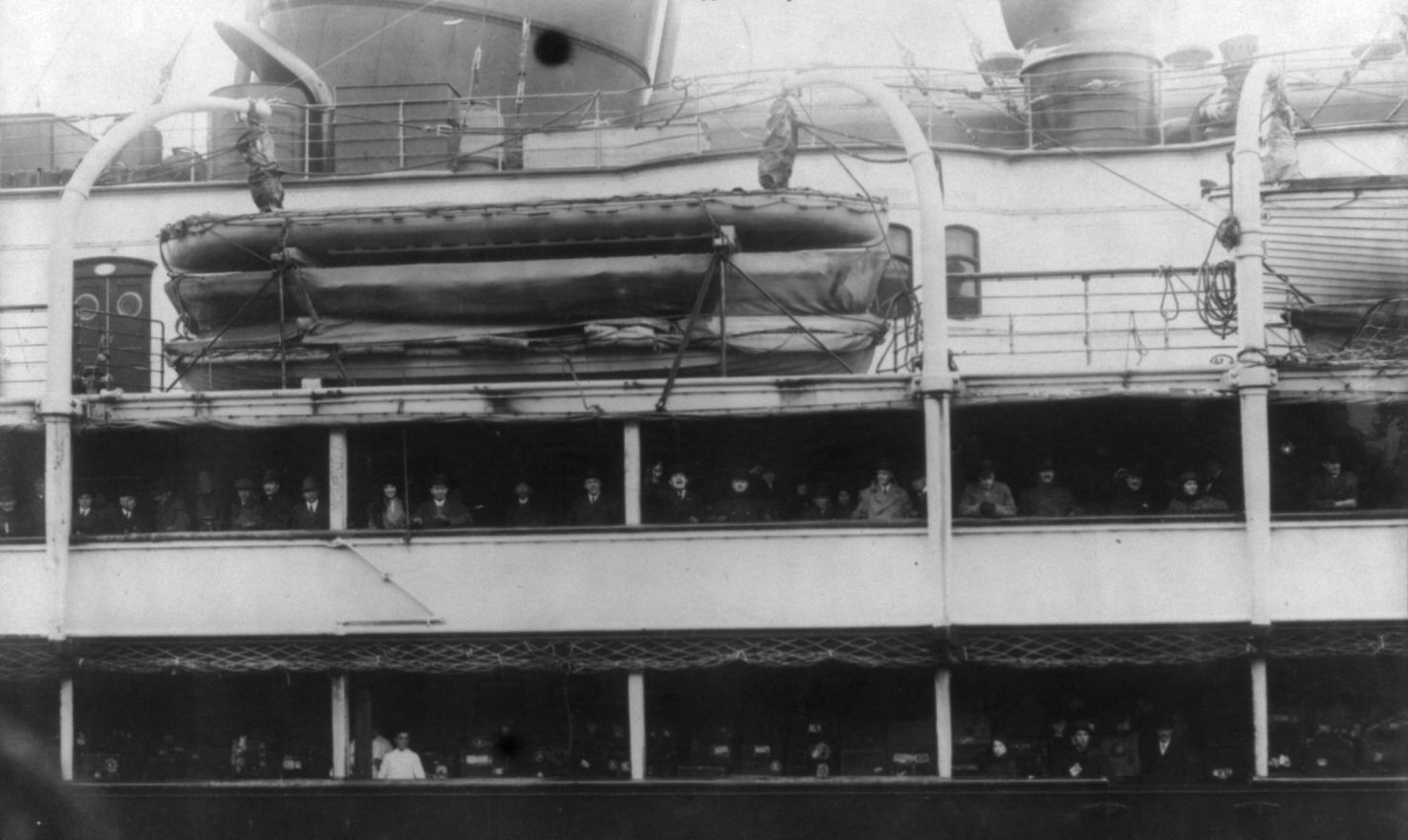 Original caption 'Returning baseball tourists'. Bain news service photograph of RMS Lusitania in New York. One of a series taken at the same time. Detail shows lifeboats on the boat deck above waving passengers.